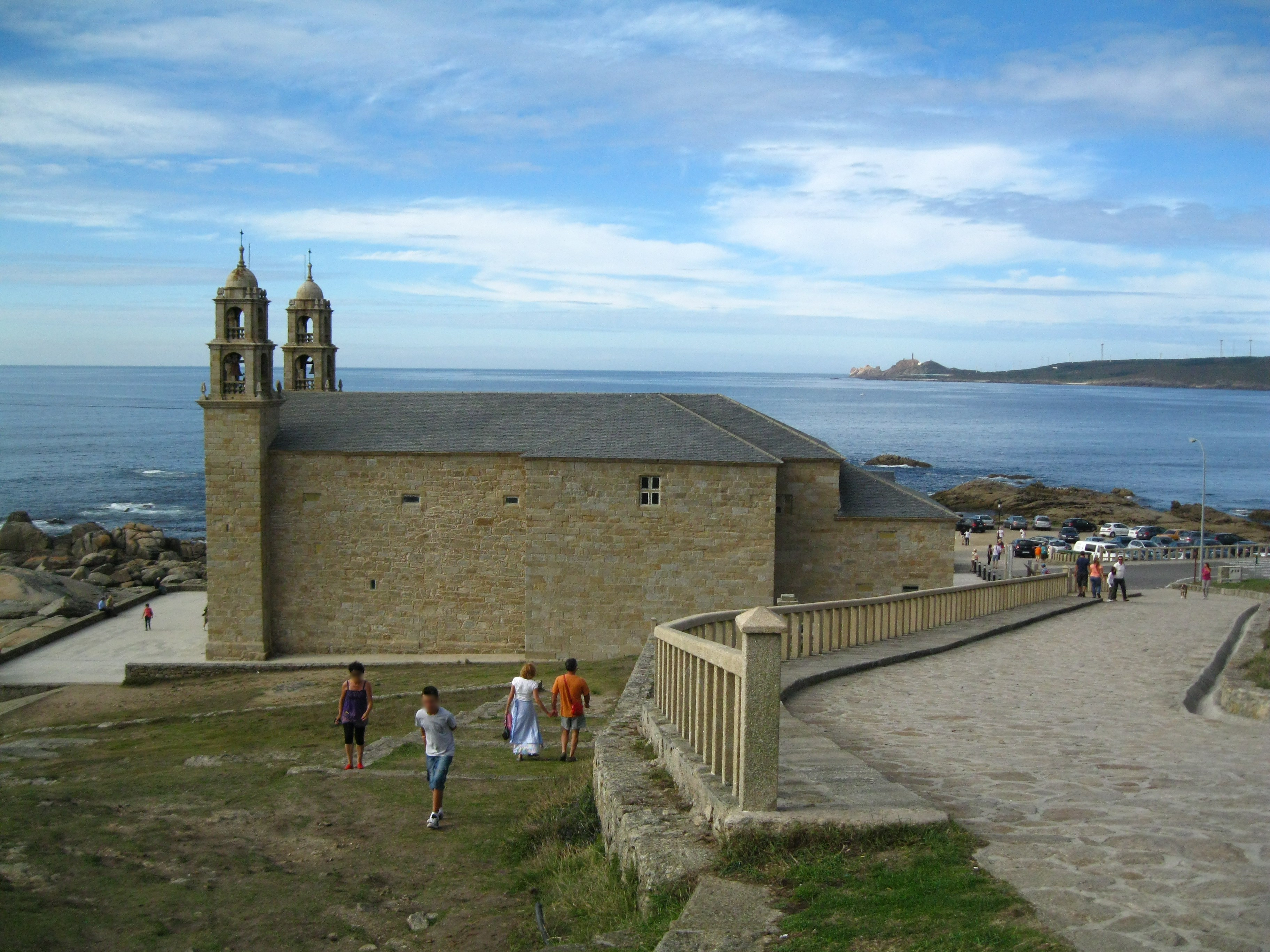 Virxe da Barca sanctuary in Muxía, Galicia, Spain.